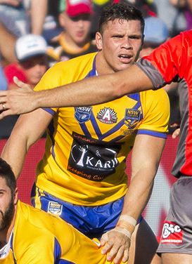 2015 City vs Country Origin match at McDonalds Park in Wagga Wagga.